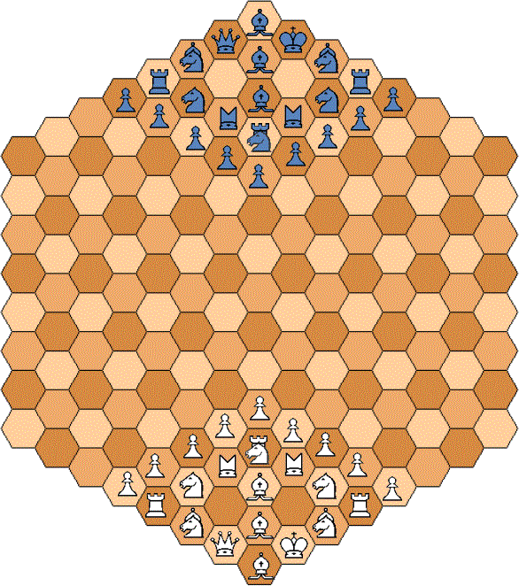 C'escacs starting position